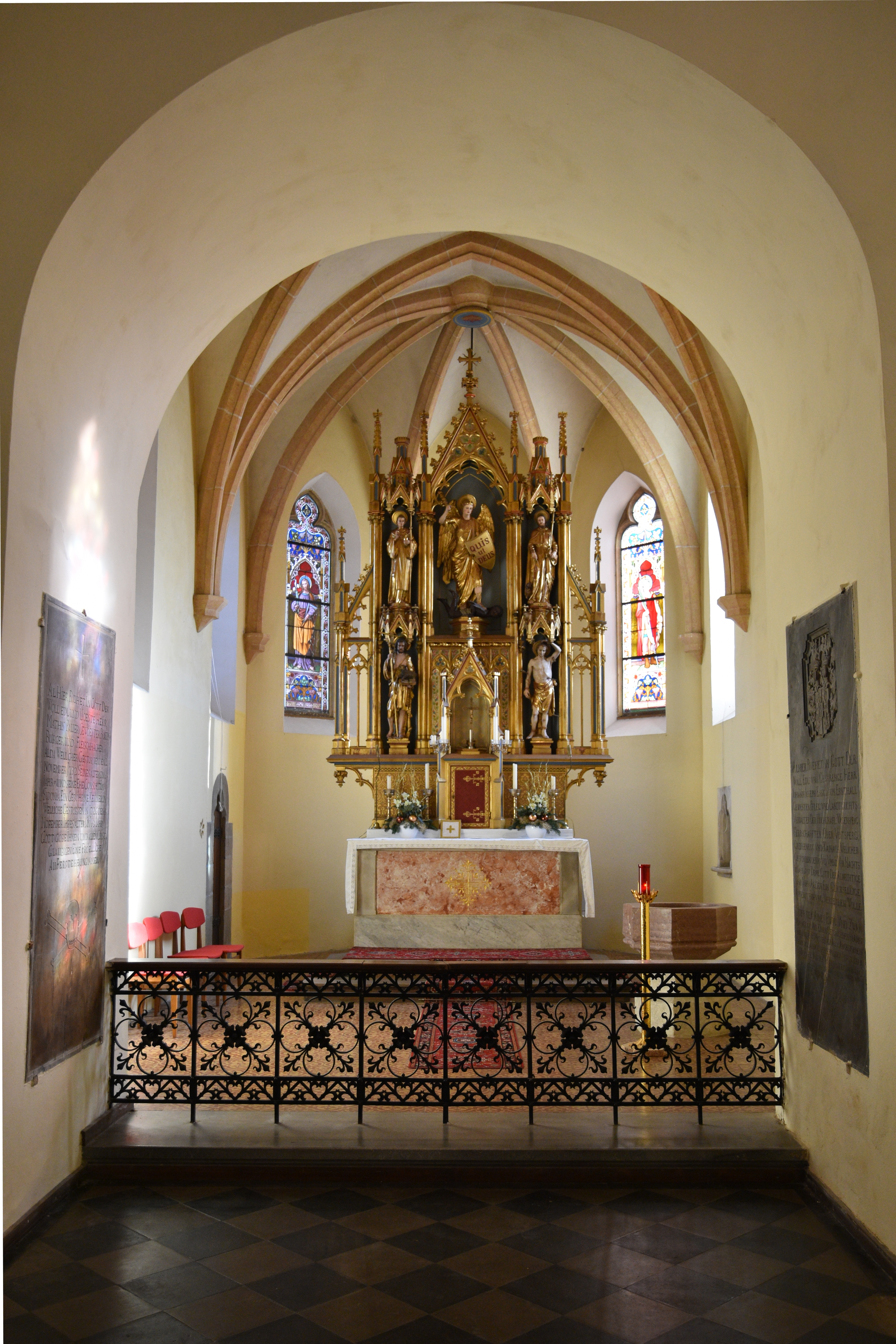 Church Filialkirche hl. Michael, Voitsberg Interior